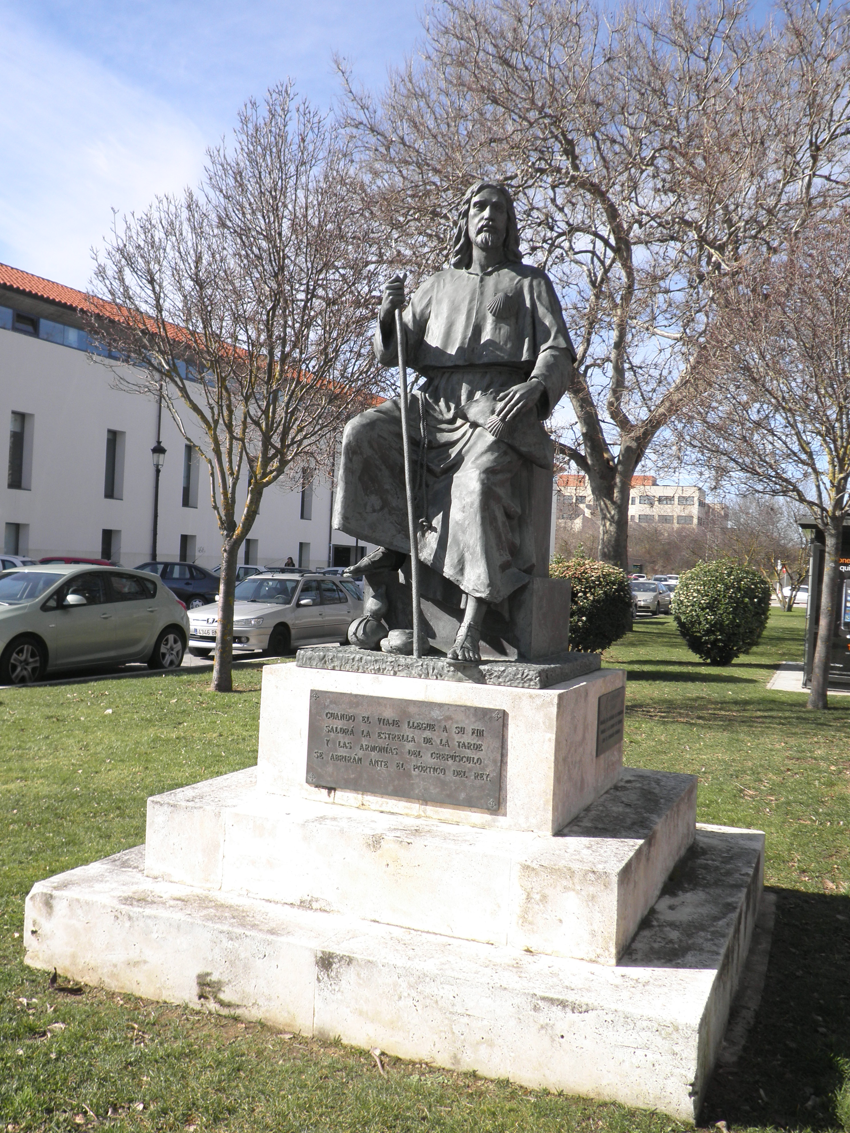 Pilgrim statue near the Hospital del Rey, Burgos. The Hospital del Rey was a welfare establishment for pilgrims for centuries. Nowadays it houses the Rectorate, the Law Faculty and the Old Library of the University of Burgos.